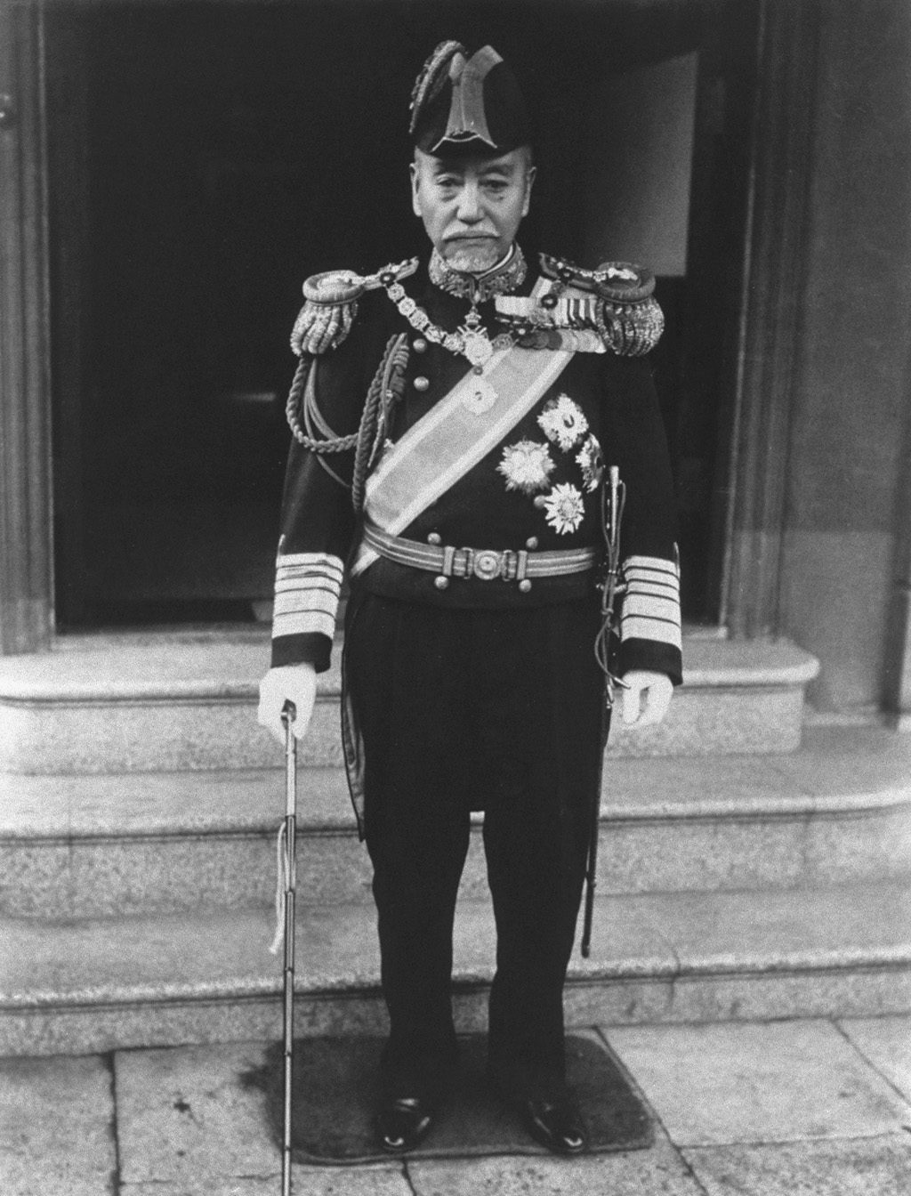 Portrait of Togo Heihachiro (東郷平八郎, 1848 – 1934)